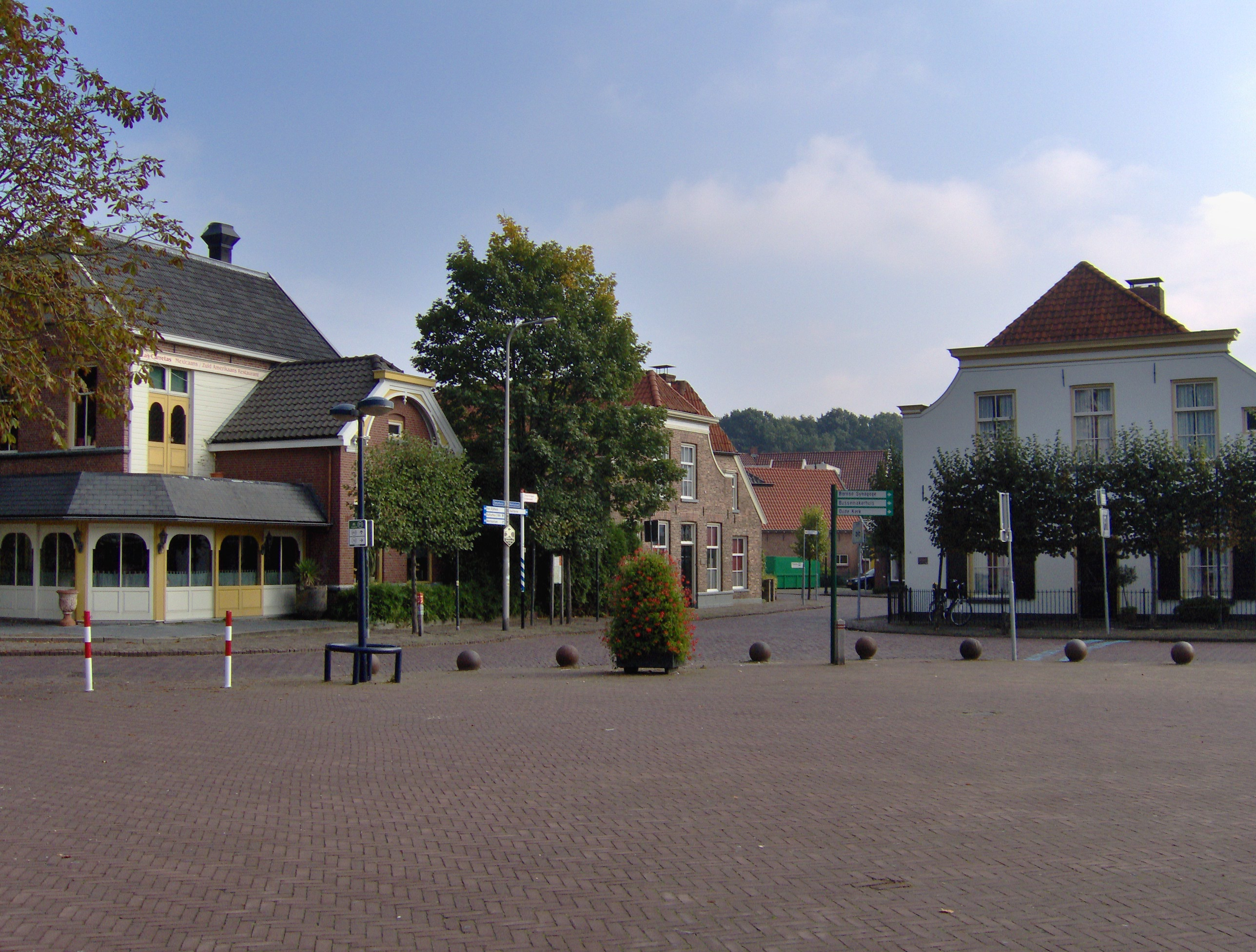 The square Dorsetplein in Borne, The Netherlands